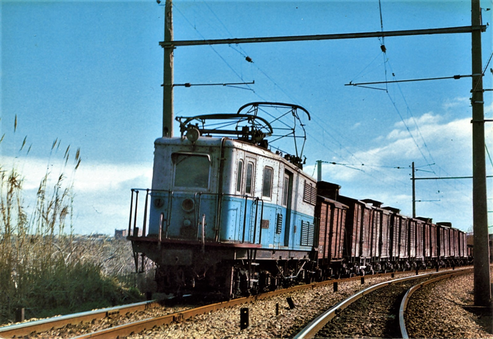 Locomotive 303 of the Compañía General de los Ferrocarriles Catalanes arriving at the Sant Boi de Llobregat station with a freight train. It is painted in the colors of the fifties.